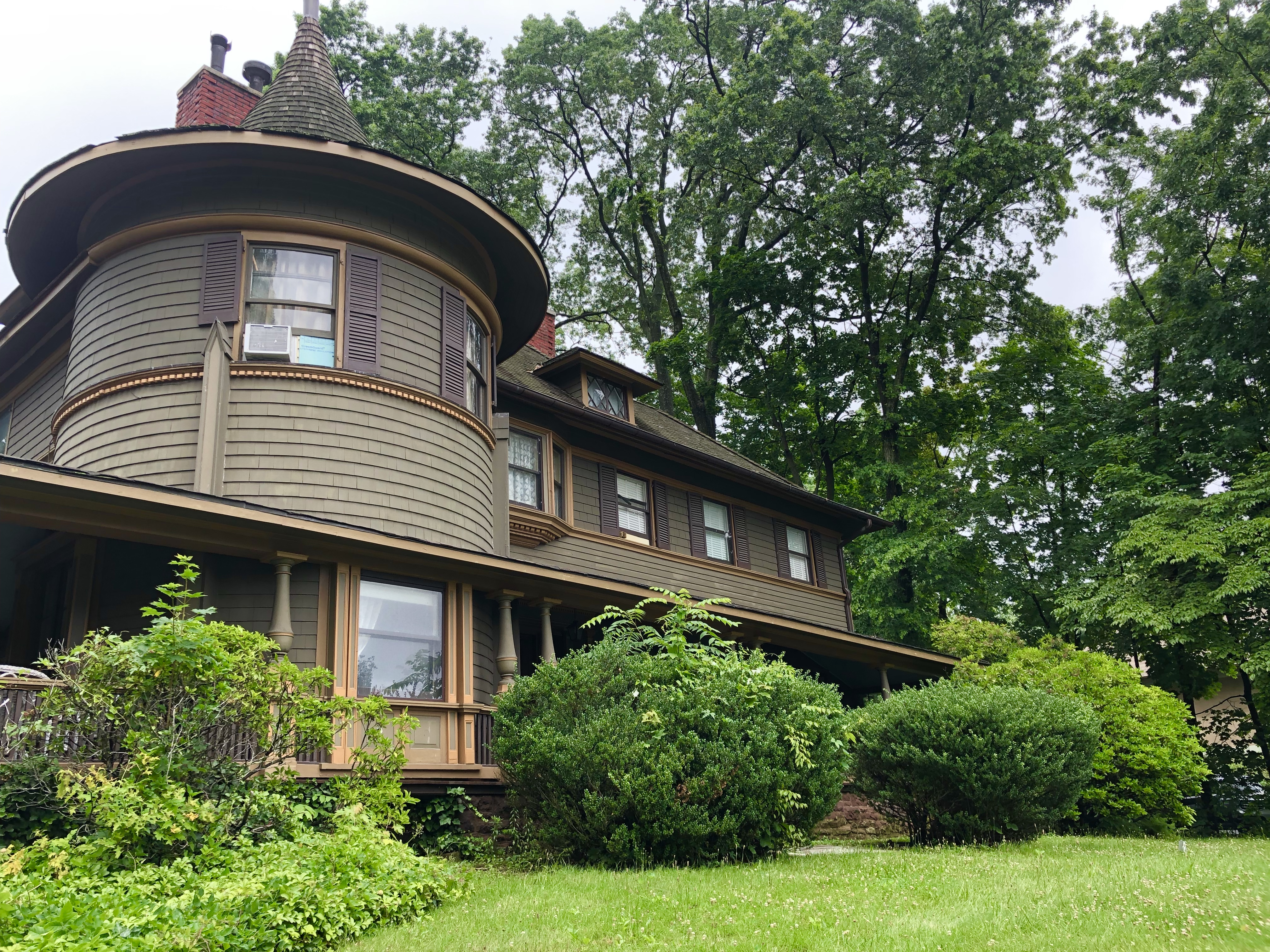 Administration Building Montclair History Center